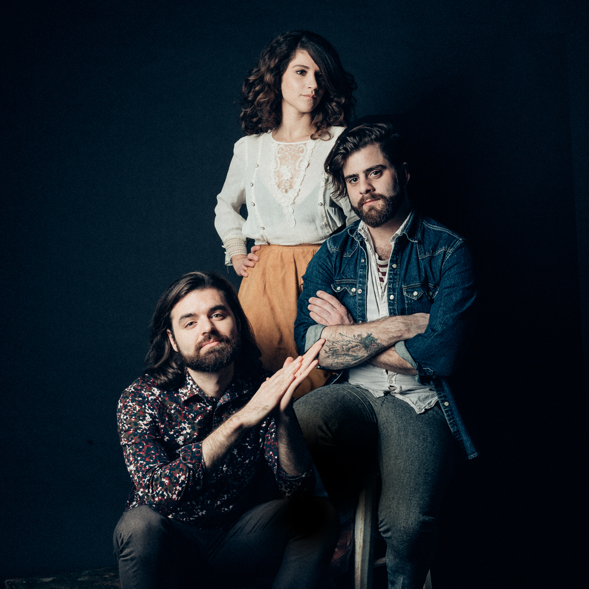 Swear and Shake in Nashville, TN, in 2016. Photo by Jeremy Ryan